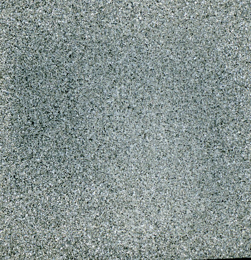 Ataxite (field of view ~2.5 cm across) - a cut, polished, nitric acid-etched surface of the Santiago Papasquiero Meteorite, found in 1958 in Durango, Mexico. It consists of a finely crystalline mix of kamacite & taenite, plus other minor minerals. Santiago Papasquiero is a strange ataxite that appears to be a completely metamorphosed and recrystallized octahedrite. Most recrystallized octahedrites still retain vague hints of the original Widmanstätten structure. This meteorite doesn't have any, so it isn’t an octahedrite - it’s an ataxite. Published chemical info. indicates that Santiago Papasquiero has 7.5% nickel content overall. The kamacite component has 6.8% Ni. The taenite component has 30% Ni.